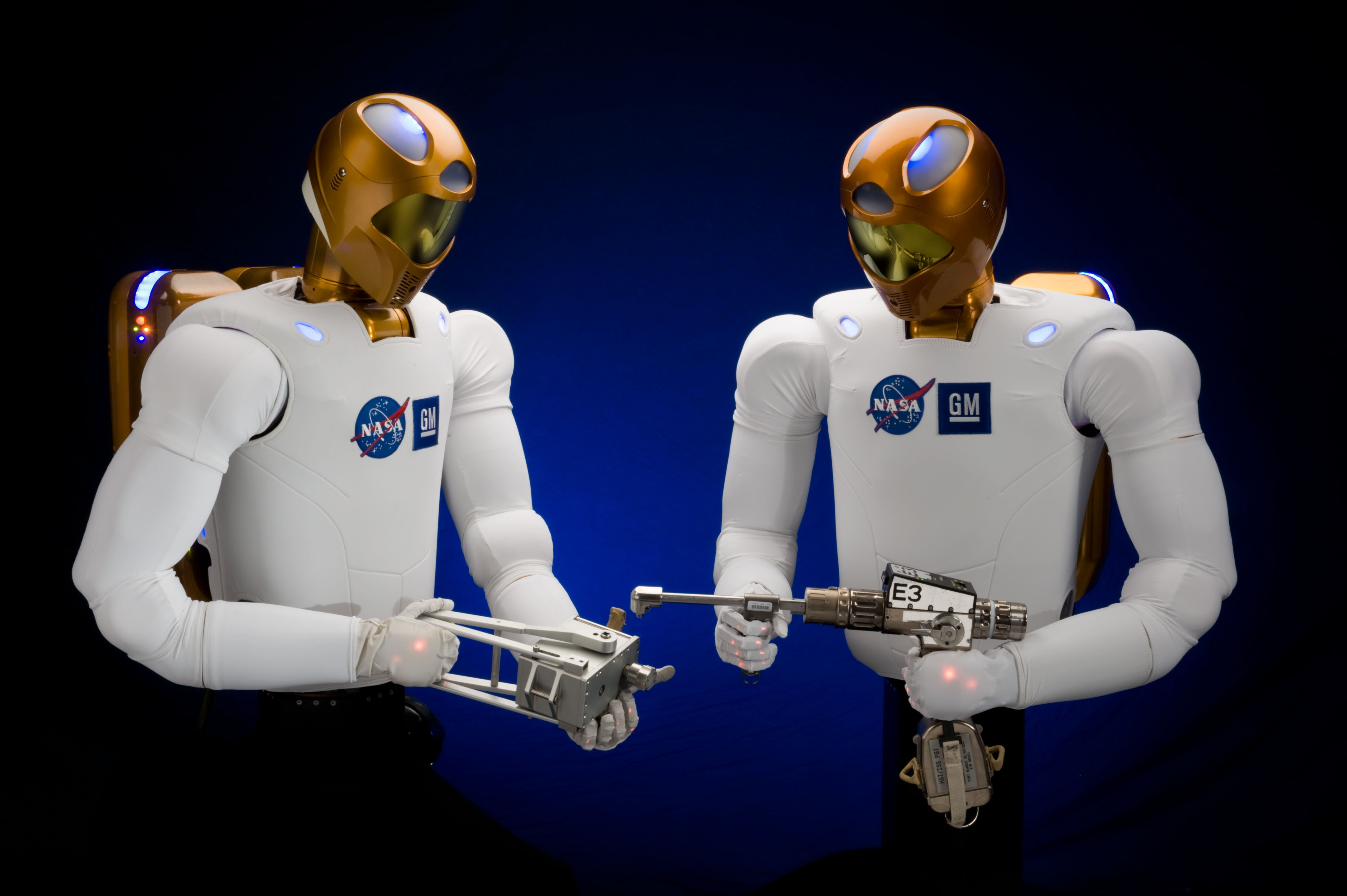 NASA and General Motors have come together to develop the next generation dexterous humanoid robot.